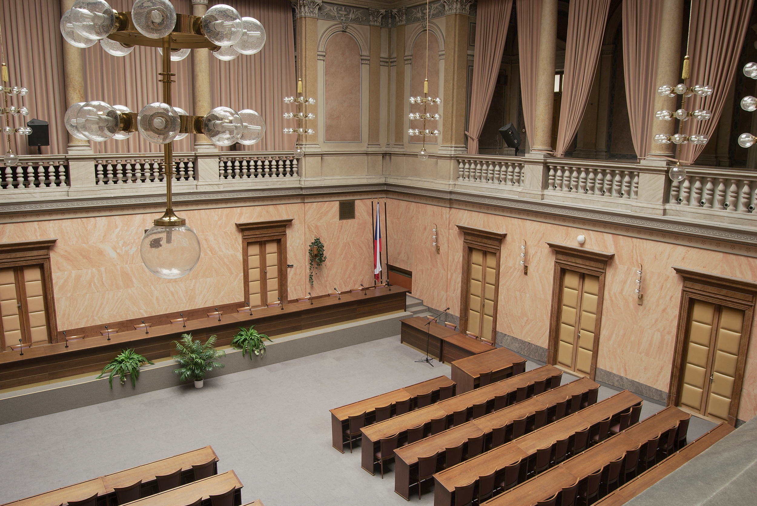 Moravian Provincial Diet - Assembly hall